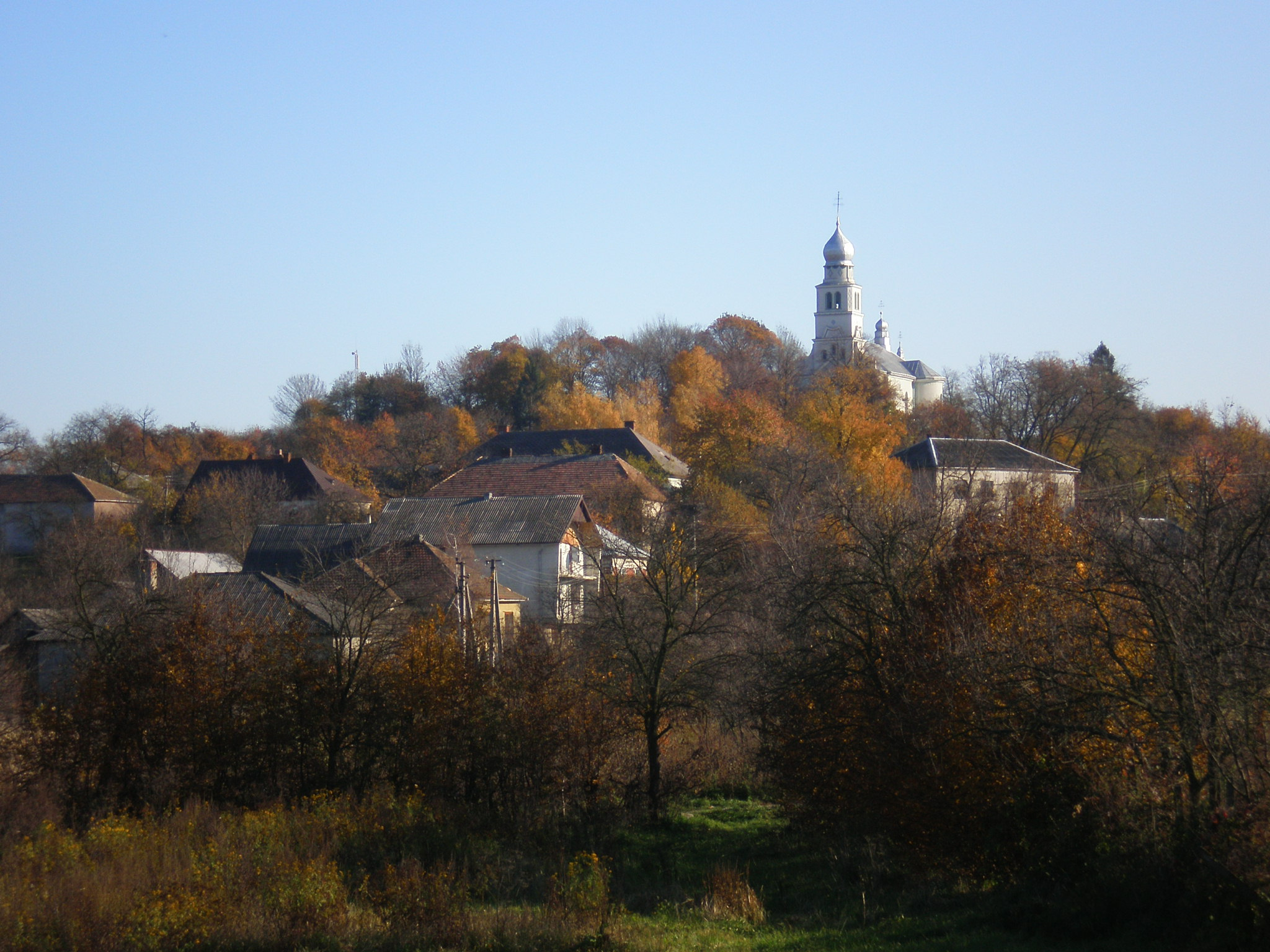 Village church